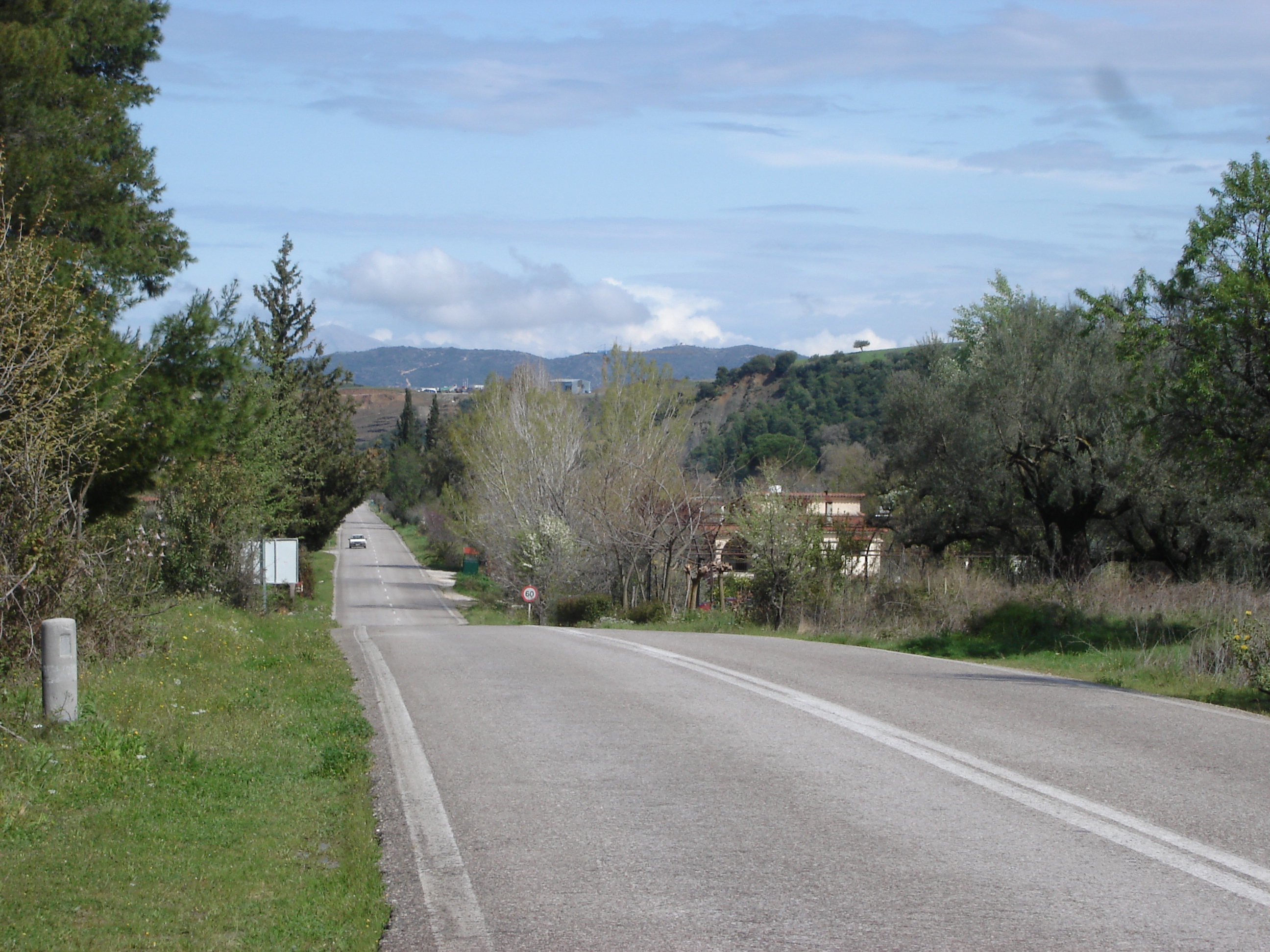 Toskes Village Greece, National road Patron-Tripolis